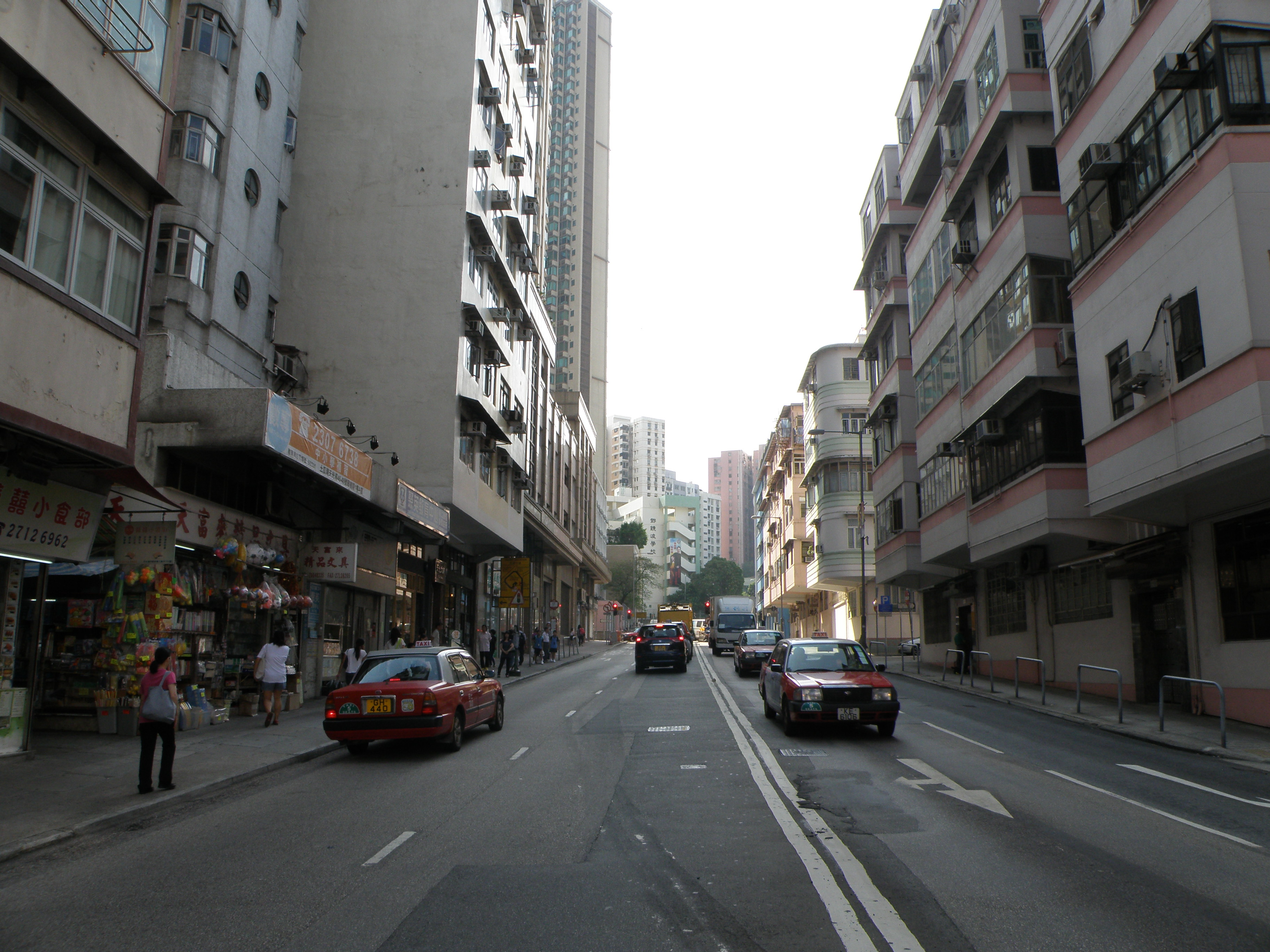 Tin Kwong Road in Ma Tau Wai, Hong Kong.